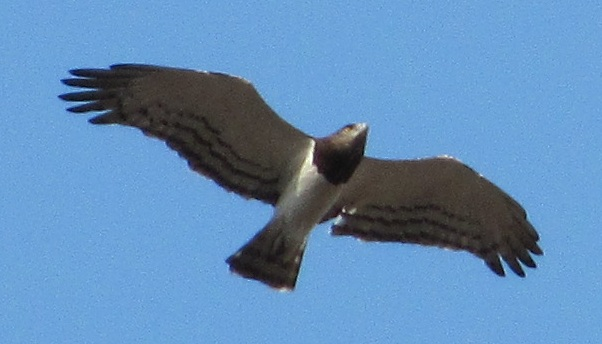 A black-chested snake eagle in flight. In the Kruger National Park, South Africa.